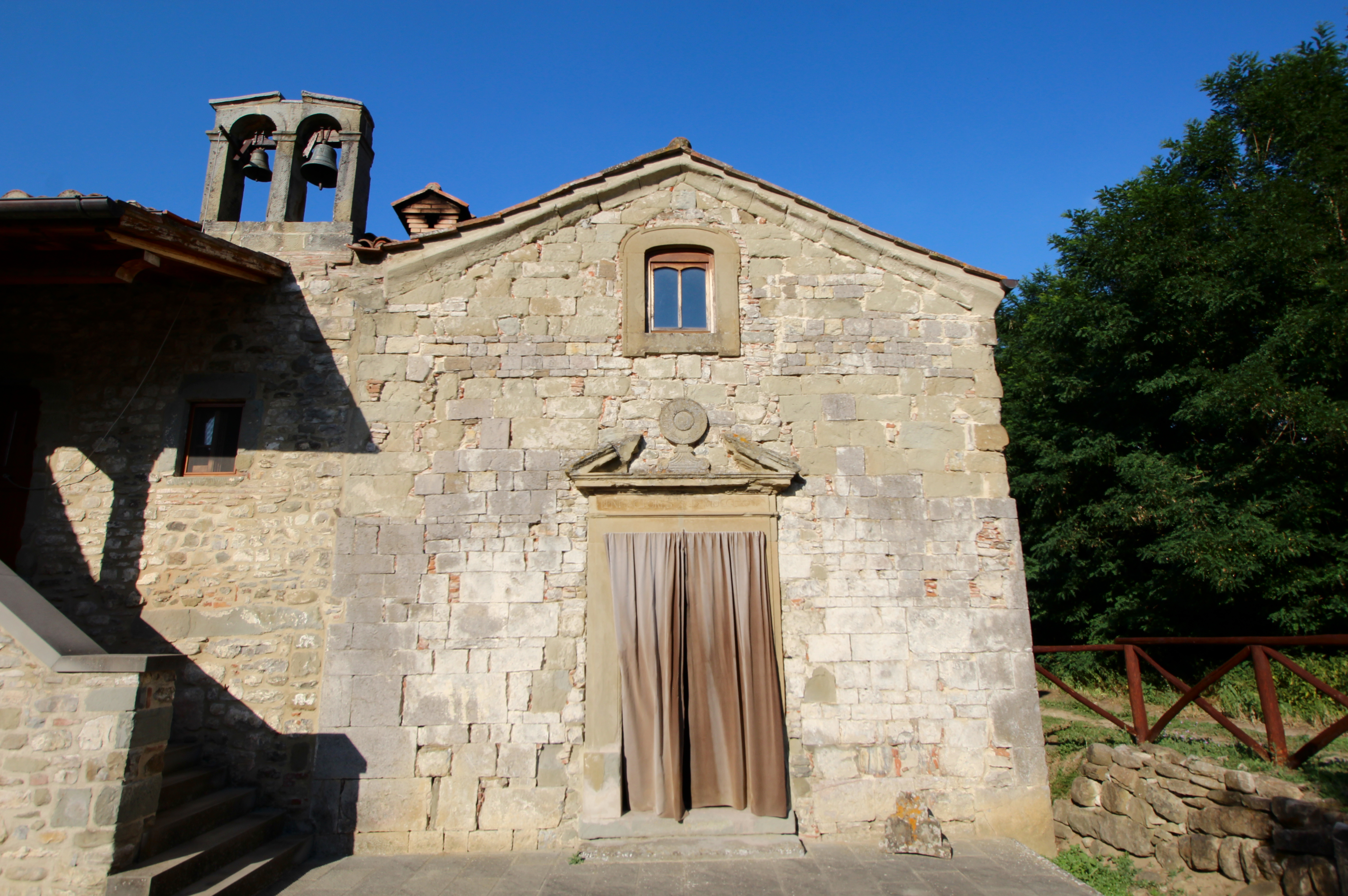 Church/Oratory Sant'Agata a Orgi, Borgo alla Collina, hamlet of Castel San Niccolò, Casentino, Province of Arezzo, Tuscany, Italy